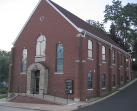 Church of Jesus Christ Bickertonite, located in Monongahela, Washington County, Pennsylvania. --- original photo by John Hamer